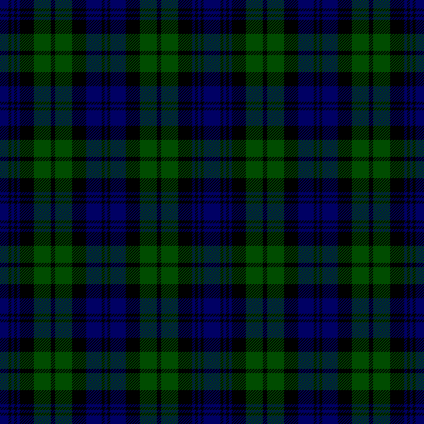 Black Watch or Campbell tartan. Modern thread count: b24k4b4k4b4k20g24k6g24k20b22k4b4